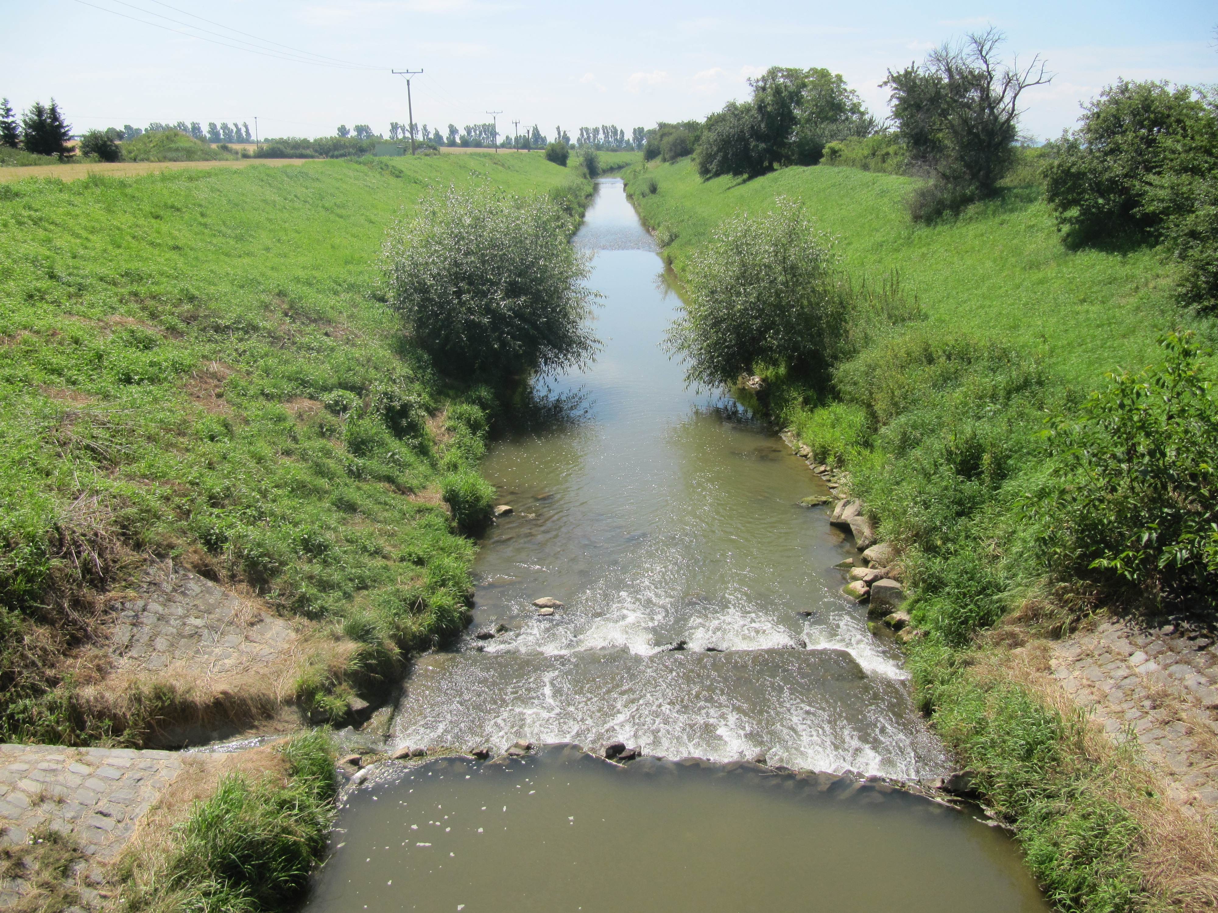 Říkovice, Přerov District, Czech Republic.